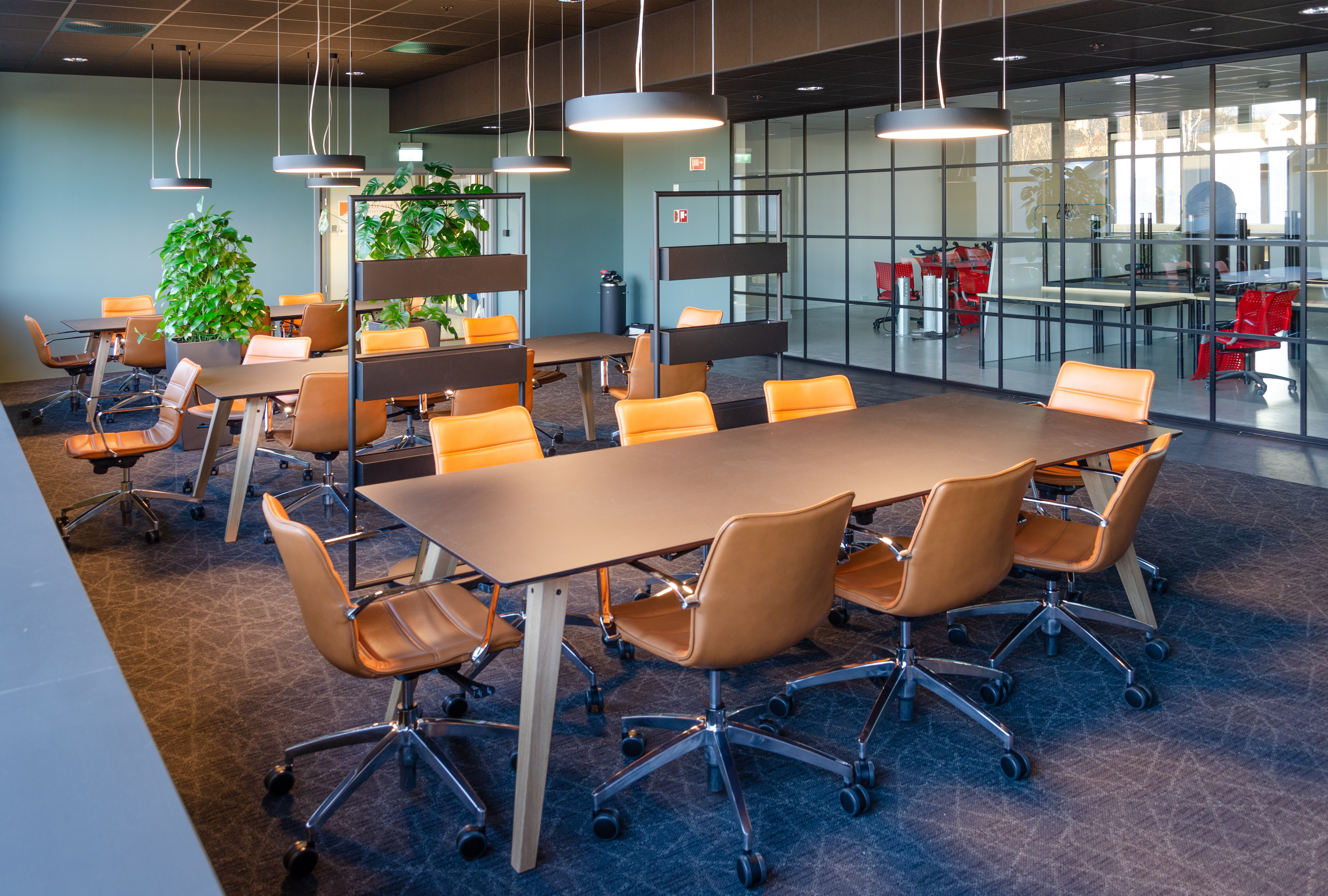 The lounge/work space area on the 2nd floor at Akademiet Drammen school.